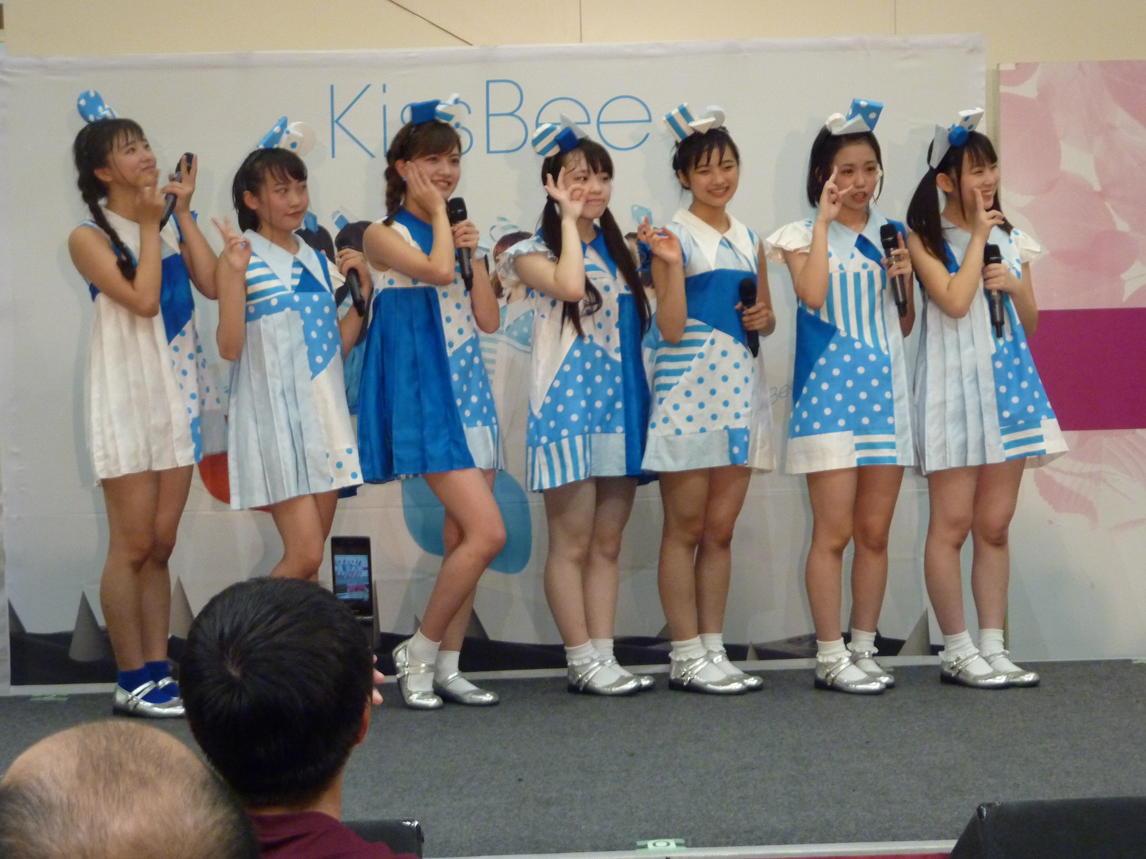 At Aeon Mall Kitatoda